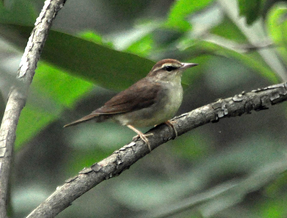 Swainson's Warbler Limnothlypis swainsonii, Nine Times, South Carolina, USA